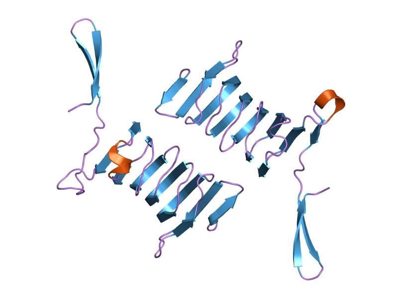 Cartoon representation of the molecular structure of protein registered with 1kq5 code.